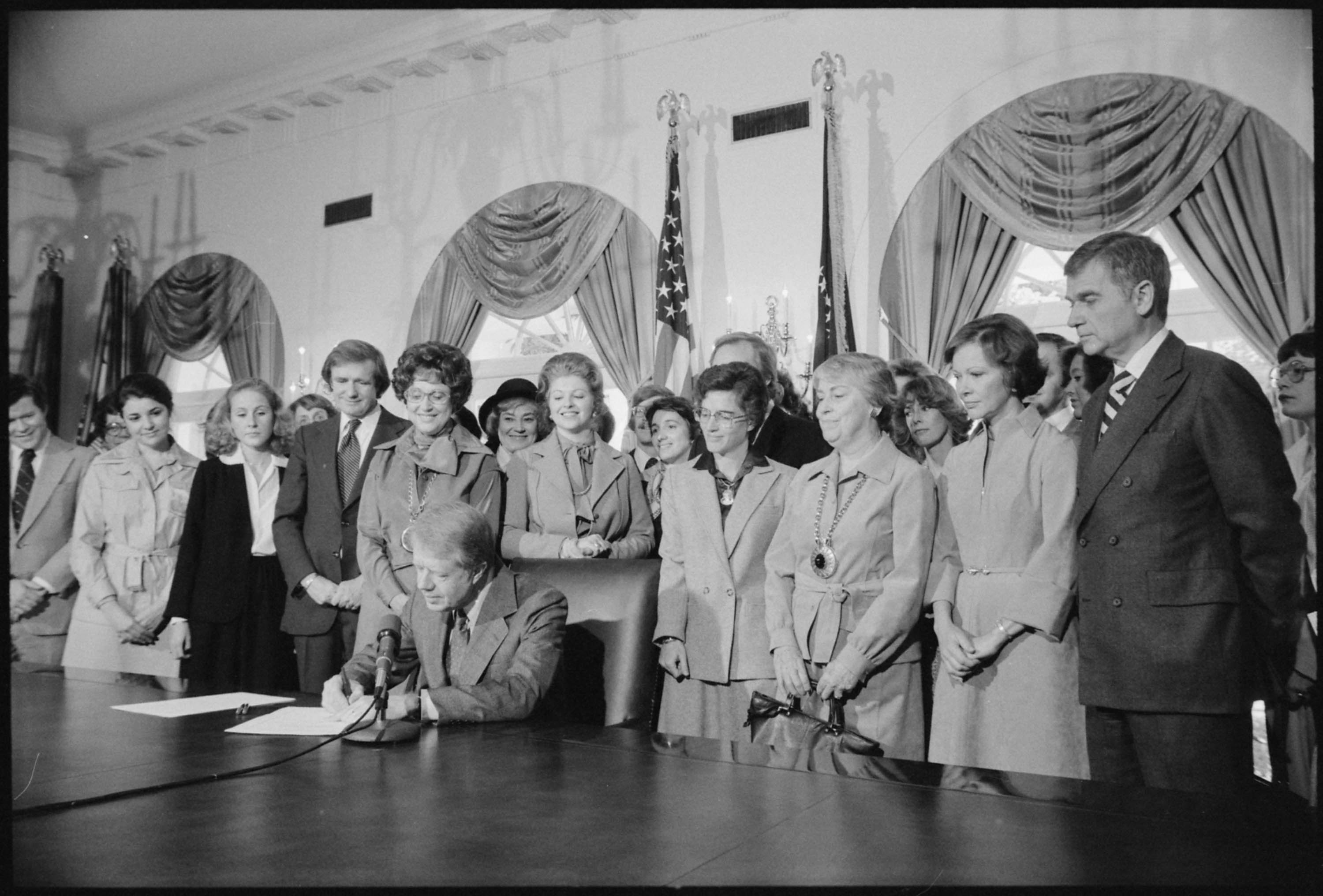 Original Caption: Photograph of Jimmy Carter Signing Extension of Equal Rights Amendment (ERA) Ratification, 10/20/1978 U.S. National Archives’ Local Identifier: From:File Unit: Jimmy Carter - Meeting with Irvine Sprague; At ERA Signing with Rosalynn Carter, 10/20/1978 - 10/20/1978 Created By:President (1977-1981 : Carter). White House Staff Photographers. (01/20/1977 - 01/20/1981) Production Date:10/20/1978 Persistent URL: Repository: Jimmy Carter Library, Atlanta, GA Buy copies of selected National Archives photographs and documents at the National Archives Print Shop online: Access Restrictions: Unrestricted Use Restrictions: Unrestricted